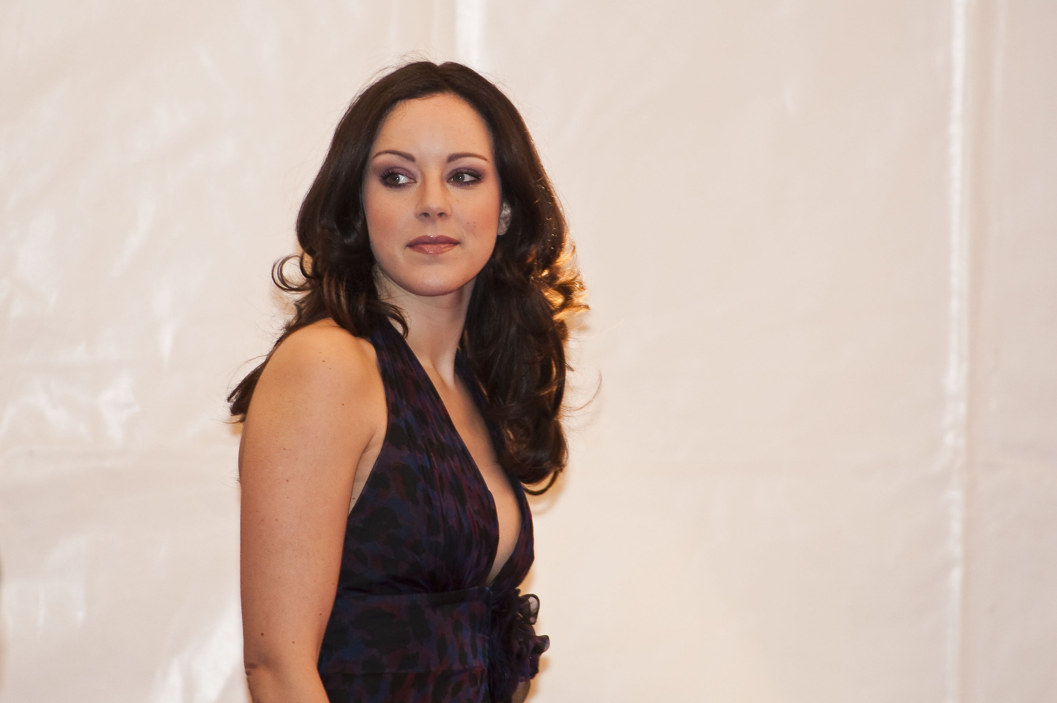 Jasmin Wagner, German singer (formerly known as Blümchen) arriving at the Cinema For Peace gala 2010